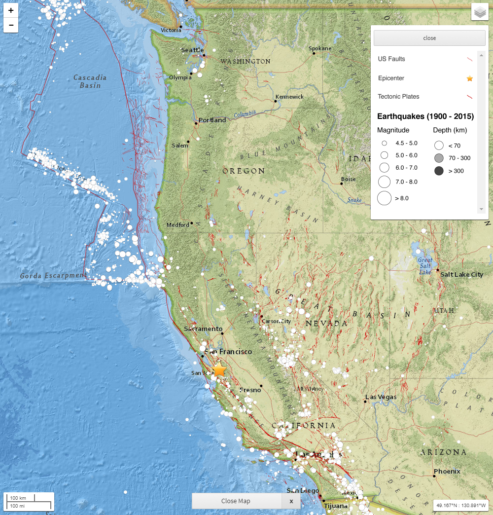 Earthquakes M4.5+ (1900-2015) US West Coast Circle sizes indicate Magnitude, and colors indicate their depth.